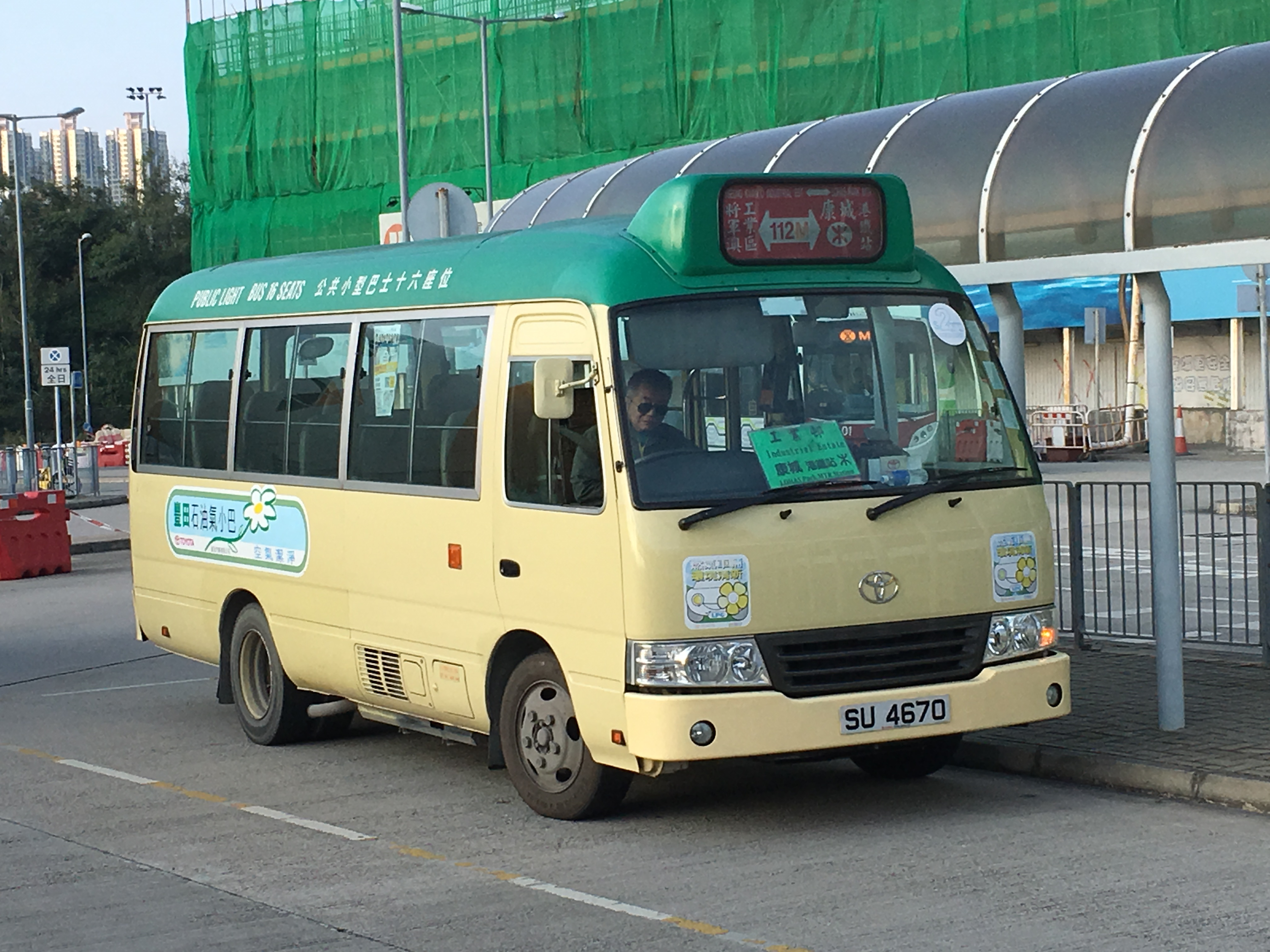 中文（香港）: This photo is taken in Lohas Park Station.